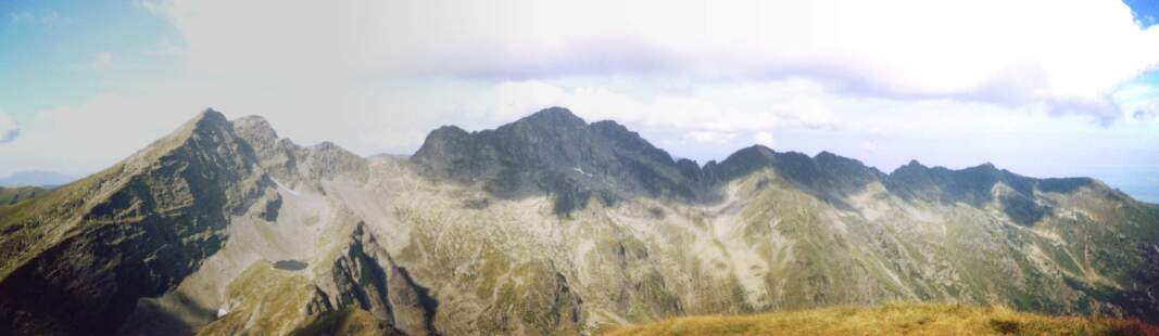 Panoramatic picture of part of the Fagaras Mountains, Lacul Caltun on the left, Negoiu in the middle, picture taken from the place between Lacul Caltun and Balea Lac